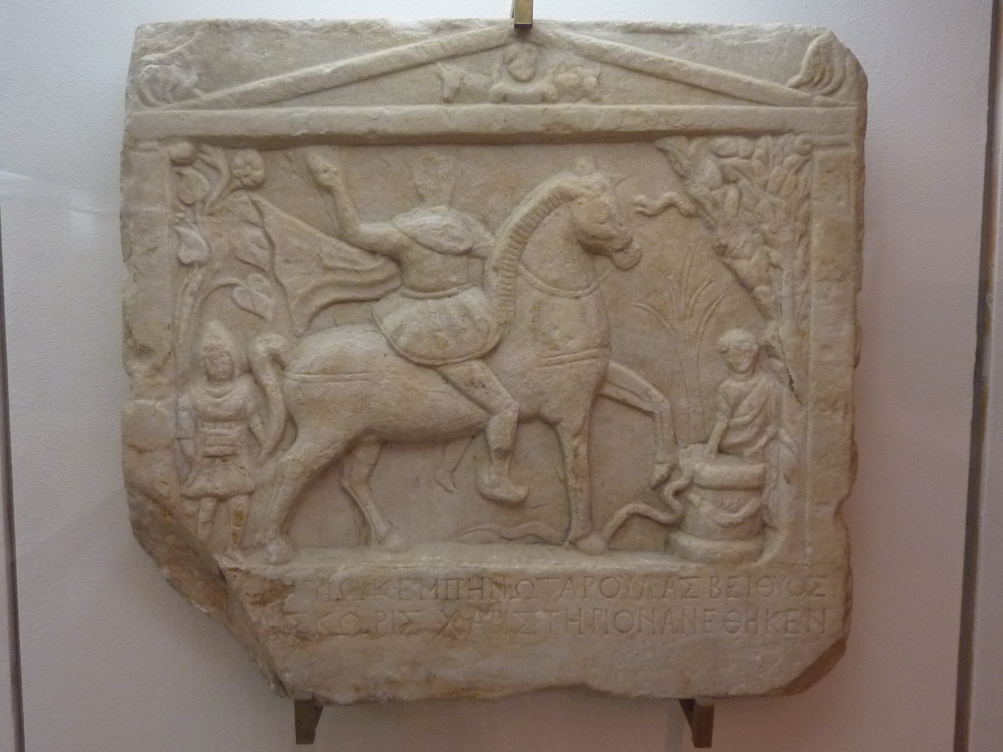 Reief of a horseman (and apparently a snake) with Greek text, in the Burgas Archaeological Museum